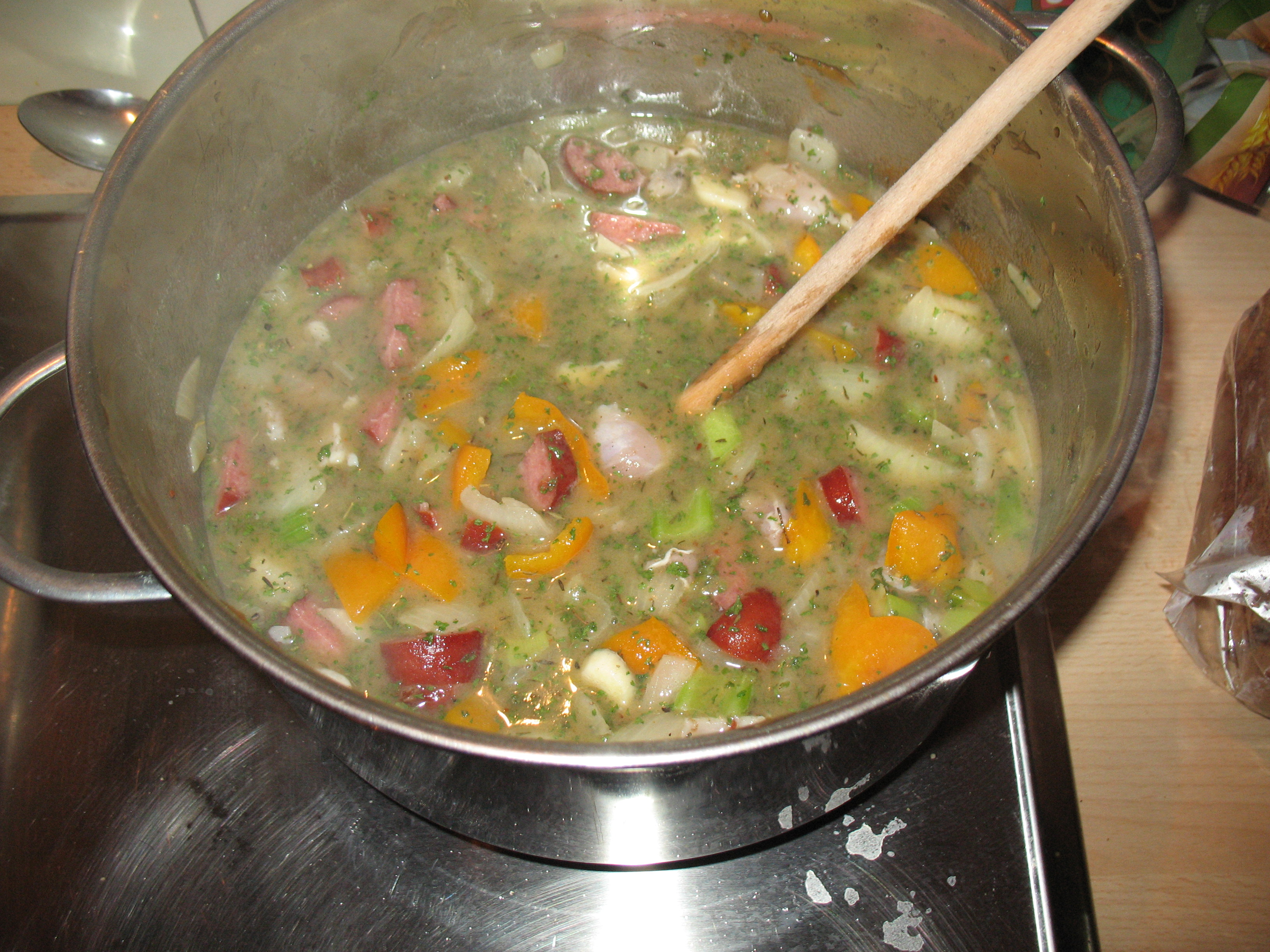 Chicken and Sausage Gumbo